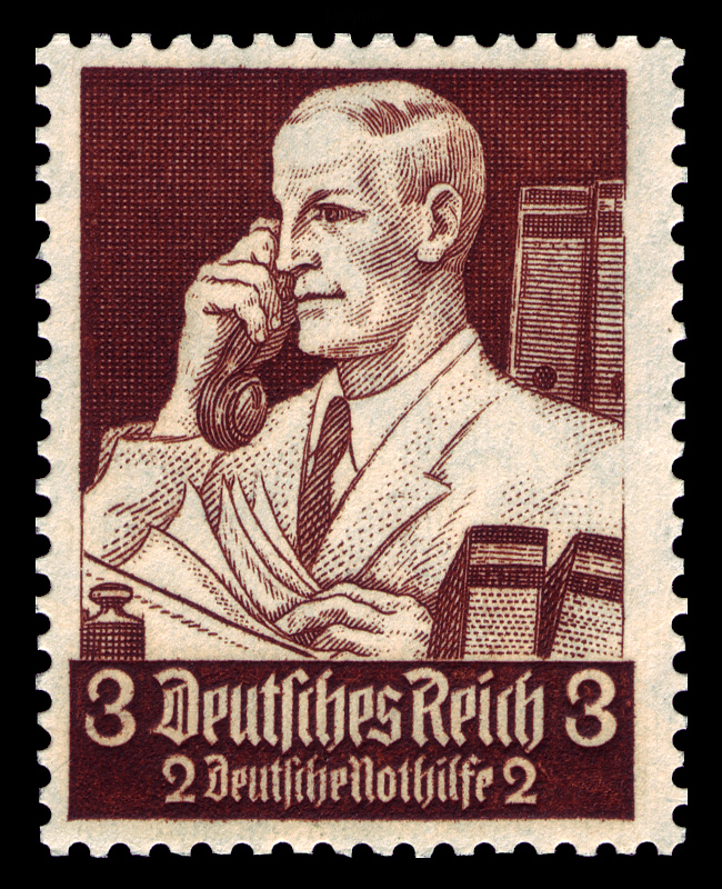 stamp series Winterhilfswerk with additional social fee Ausgabepreis: 3+2 Pfennig First Day of Issue / Erstausgabetag: 5. November 1934 Michel-Katalog-Nr: 556 (Deutsches Reich)